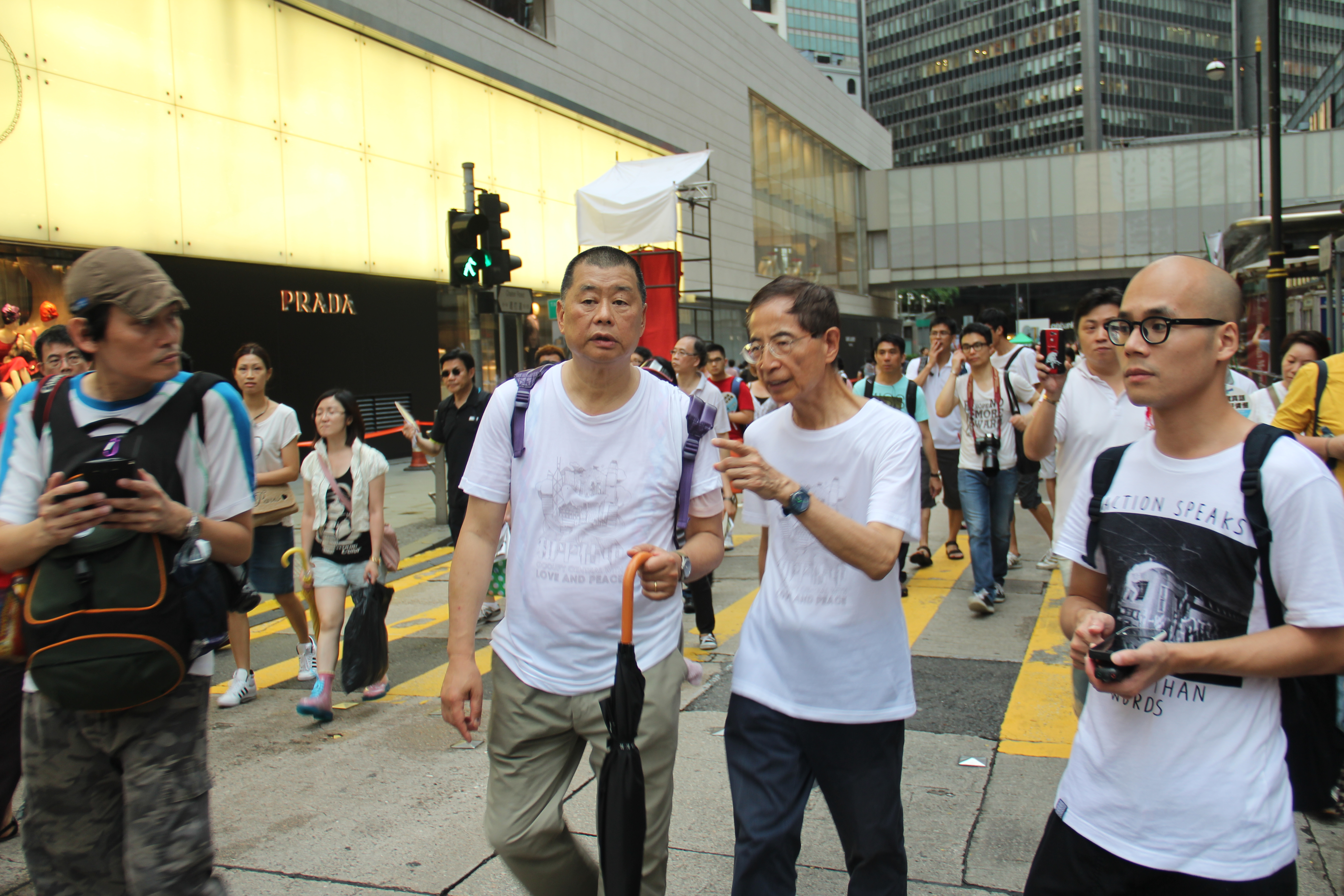 Jimmy Lai Chee-ying, founder of Giordano International Limited and Next Media Limited